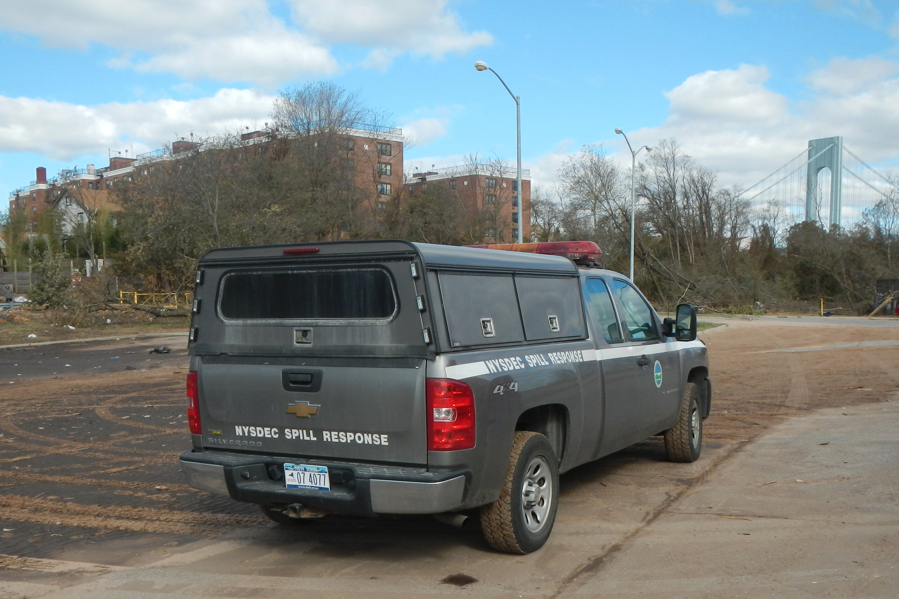 Looking north at Spill Response car after Hurricane Sandy.